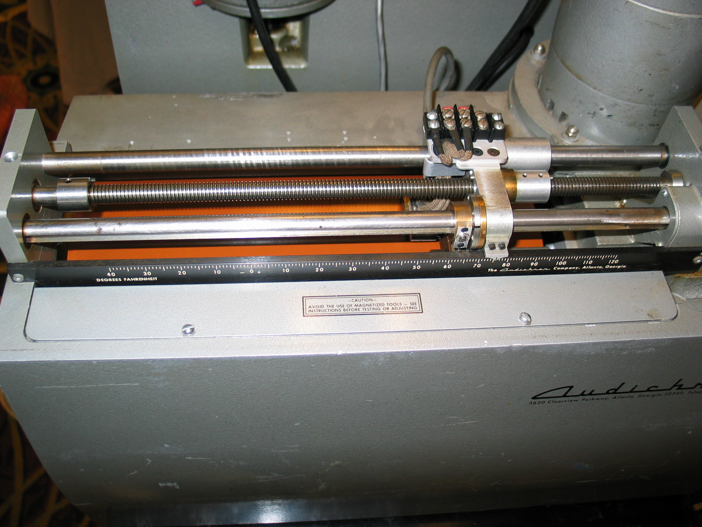 Top view showing temp drum and pickup